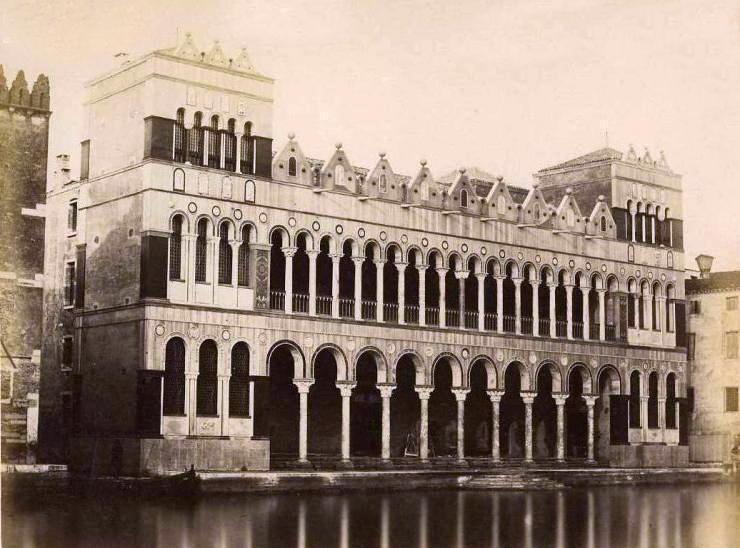 Carlo Naya (1816-1882) - "Venice, Fondaco dei Turchi". (Immediately after the restoration of the facade, whereas the windows of the flank at left are still the old ones. 1870. 1870s. Today.